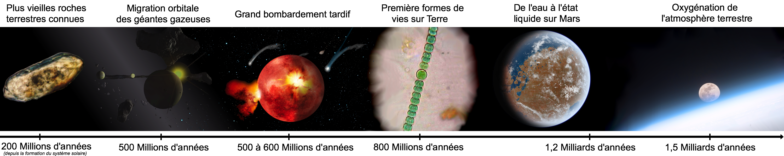 Composition of the evolution of the solar system - Third part